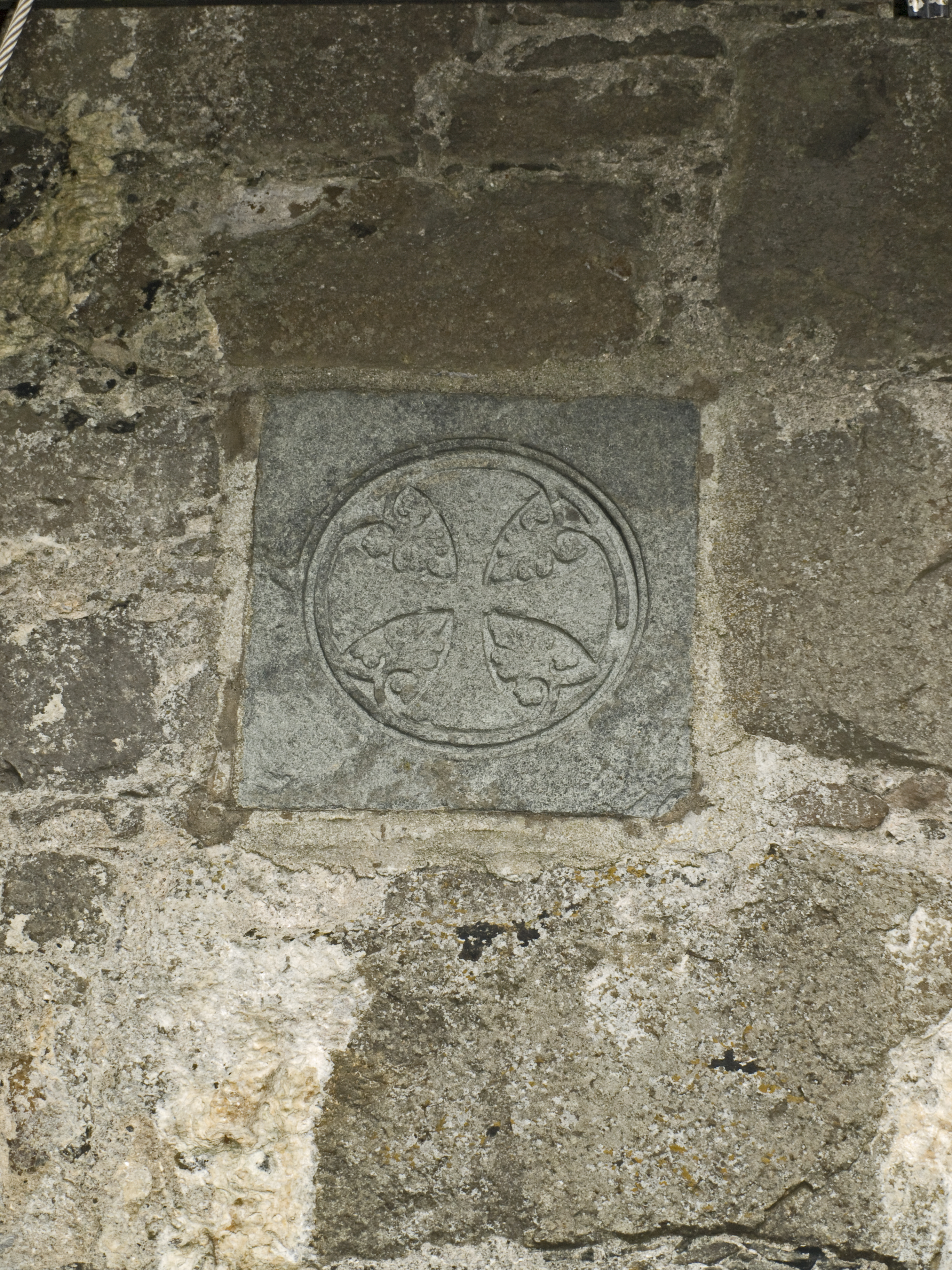 A relief depicting a cross in the Magnus Cathedral, Kirkjubour